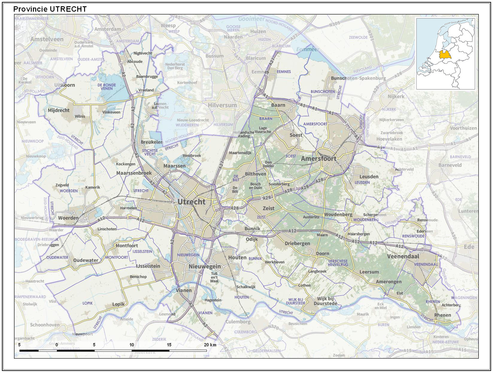 Toographic overview map of the Dutch Province of Utrecht as of 2018. Compiled by Jan-Willem van Aalst using Dutch Governmental open data (CC-BY Kadaster) and OpenStreetMap data (CC-BY OpenStreetMap contributors).